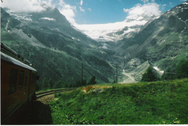 The train on the Bernina Pass leaves the Alp Grüm station here to descend to Val Poschiavo. In the background the Palügletscher and the Piz Palü. Photo summer 1997, A.C. Leunissen-Broekman